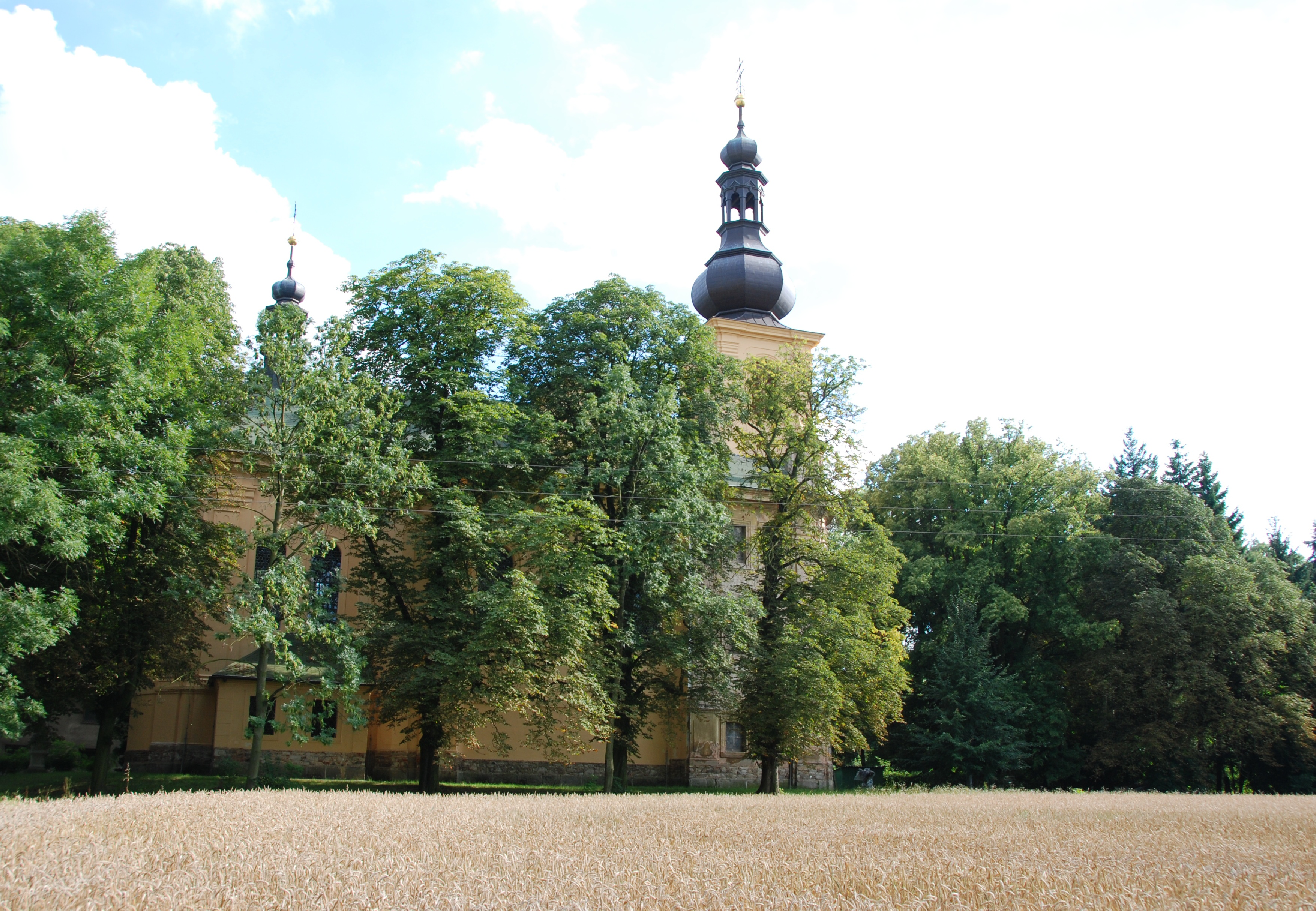 This photograph was taken within the scope of the second year of the 'Czech Municipalities Photographs' grant.